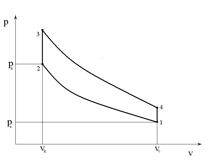 Theoretical two stroke otto diagram